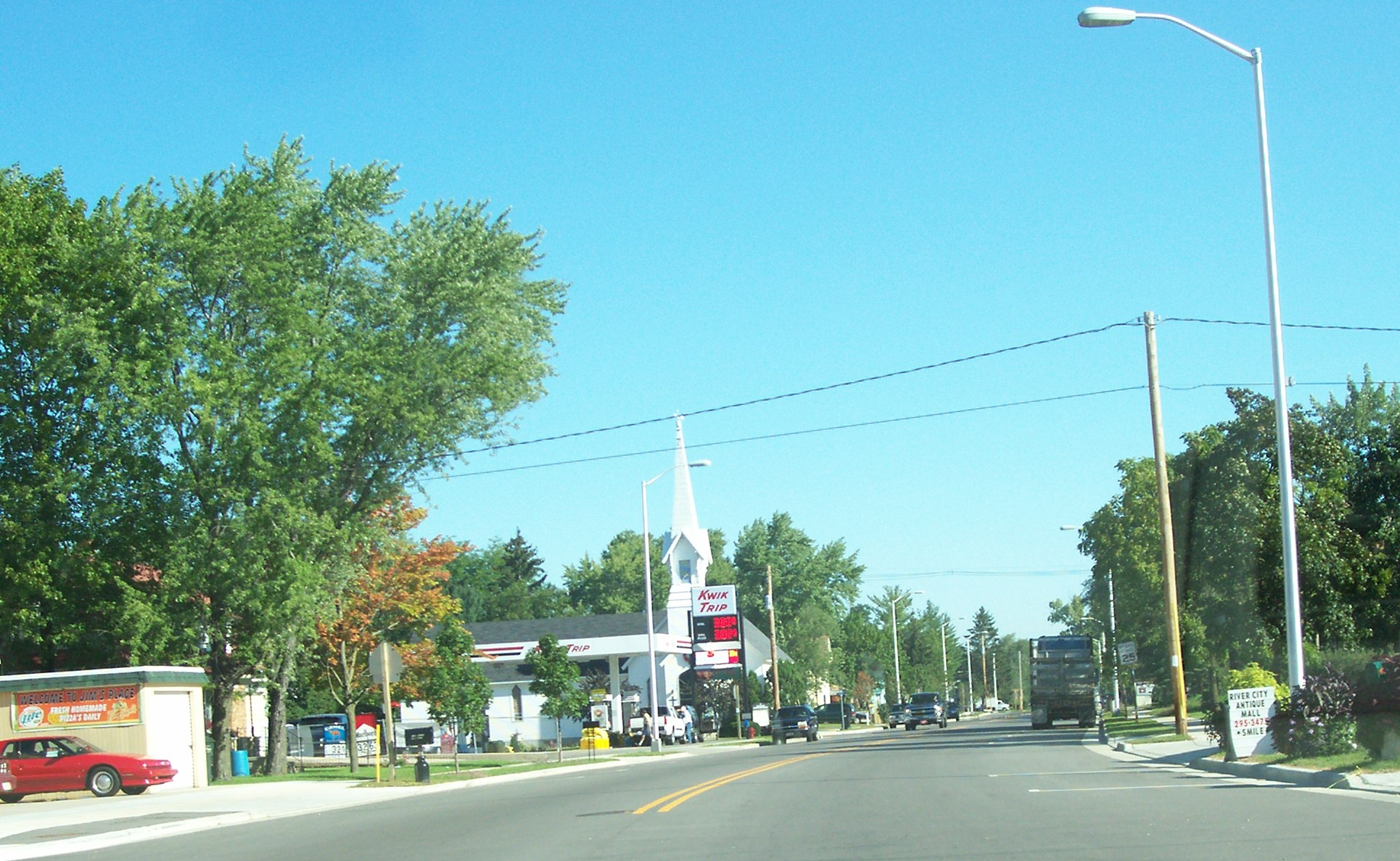 Looking north on Fulton Street, Princeton, Wisconsin, USA while traveling on westbound Wisconsin Highway 23/northbound Wisconsin Highway 73.